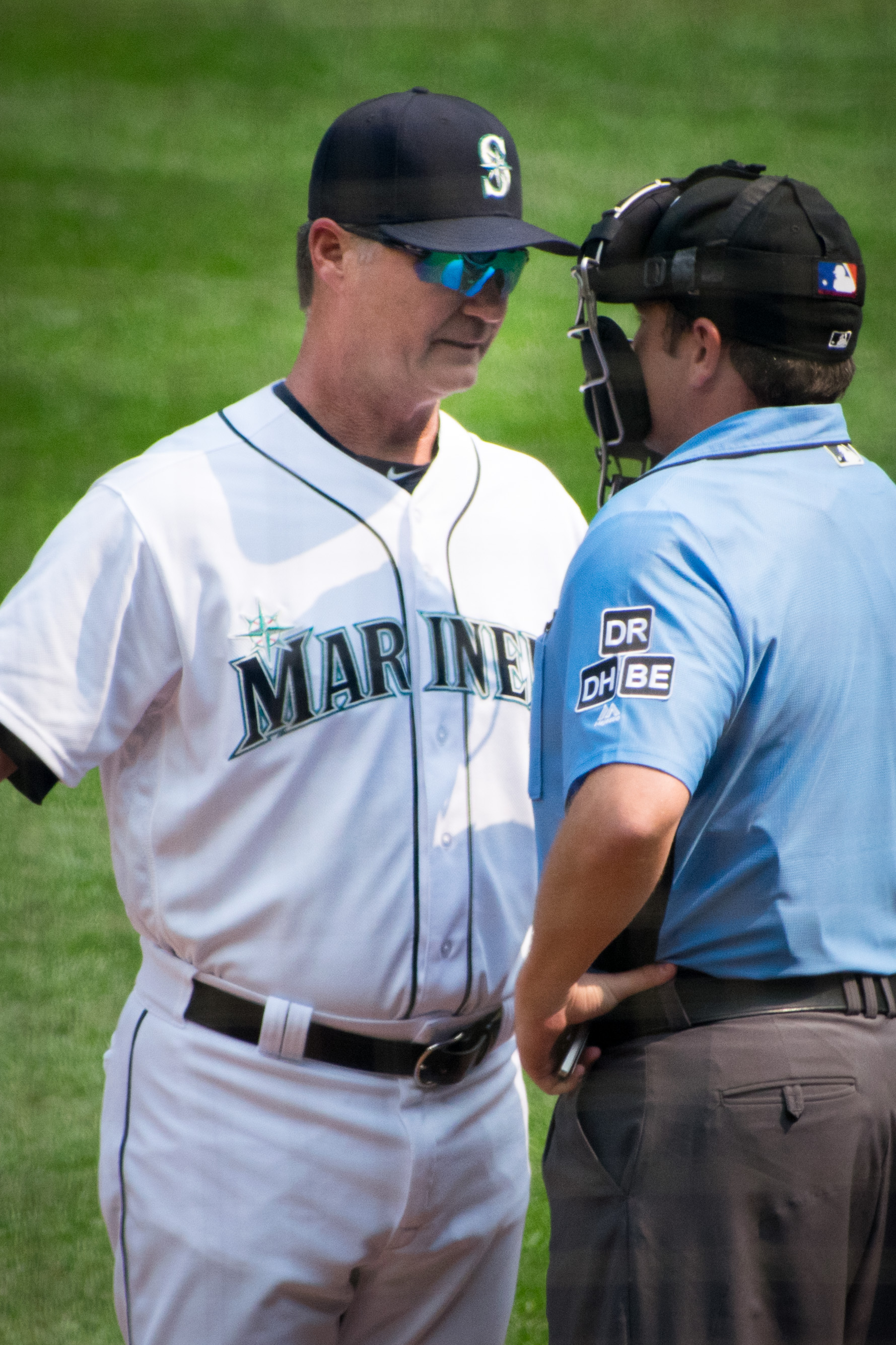 Seattle Mariners manager Scott Servais arguing with home plate umpire Jansen Visconti during their game against the Houston Astros on August 22, 2018.